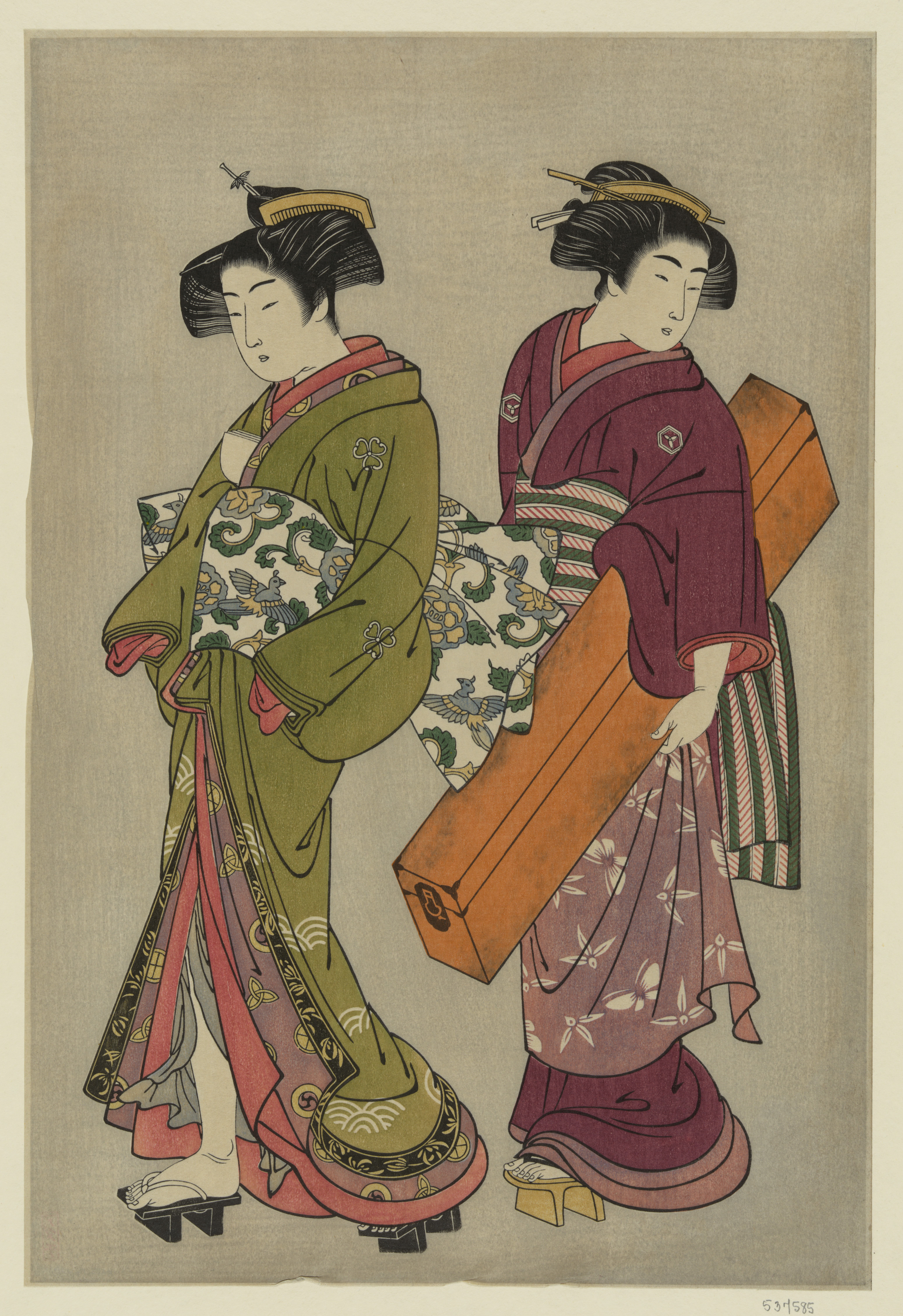 Geisha and a servant carrying her shamisen box, colour ukiyo-e print by Kitao Shigemasa. Original from 1777; this is a 20th-century impression.